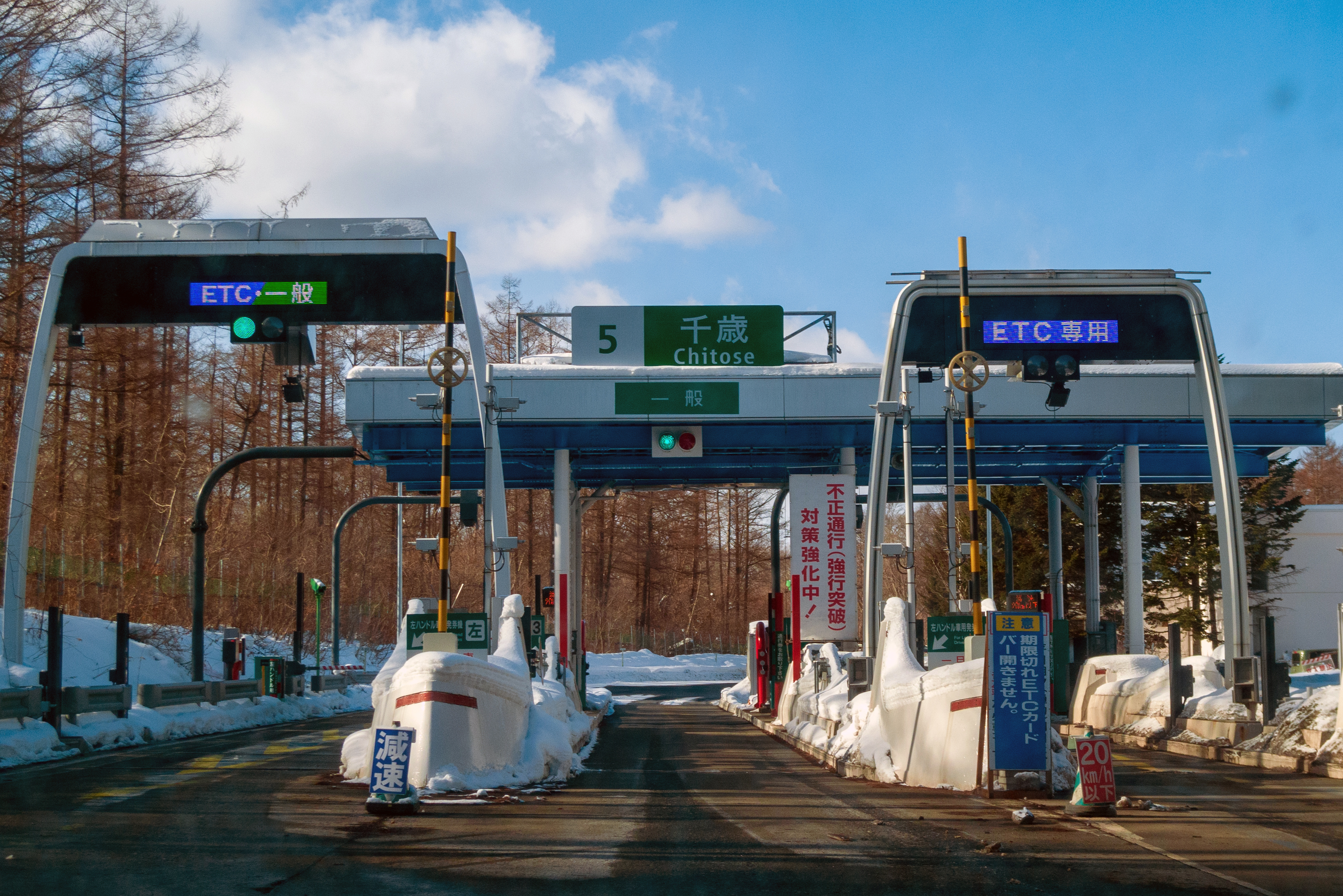 Hokkaido Expressway Chitose Interchange entrance toll gate in Chitose City, Hokkaido, Japan